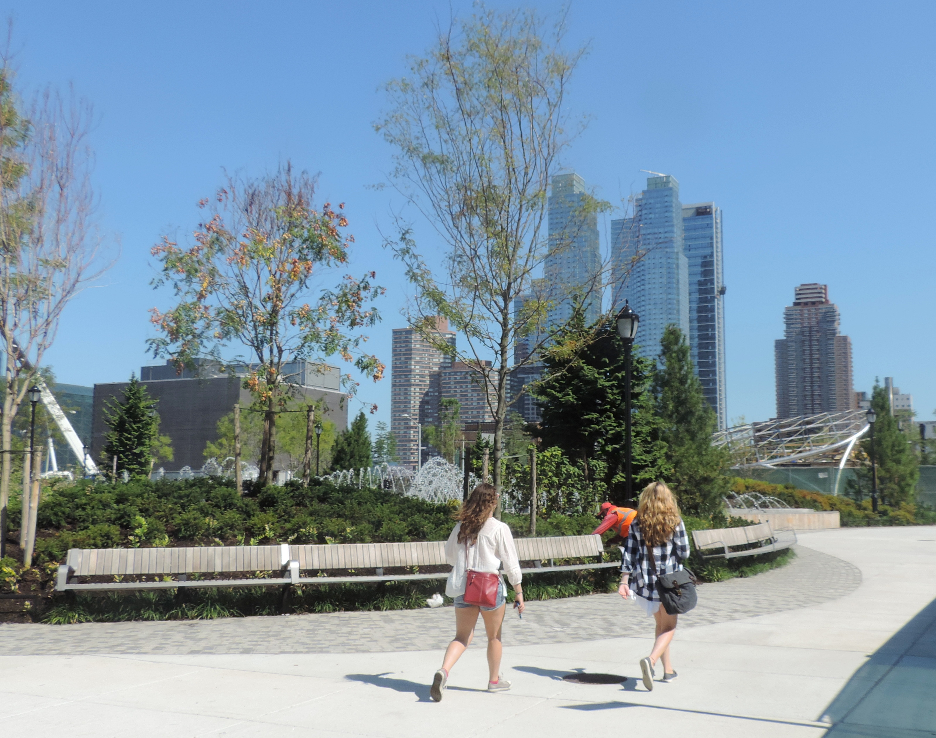 Looking north from 34th Street as two young women walk along the western side of Hudson Boulevard East, on a sunny morning.